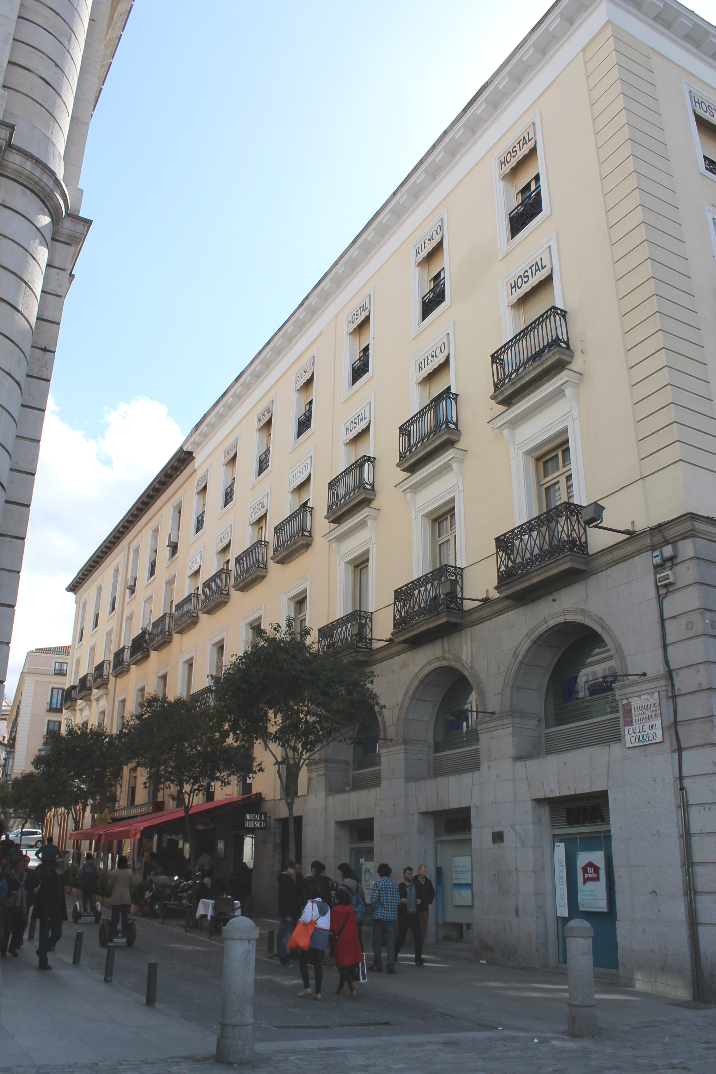 View from Calle del Correo (street) in Sol neighborhood in Madrid (Spain).